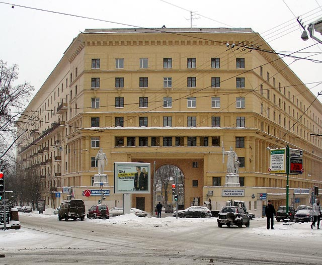 Moscow, Yauzsky boulevard 2, by Ilia Golosov (1936-1941). The building stands on the site of 19th century Khitrovo estate and park - the same Khitrovo who set up infamous Khitrov Market one block west.